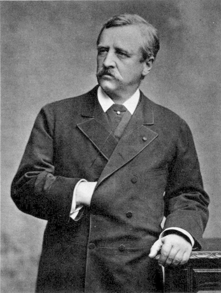 Explorer Adolf Erik Nordenskiöld.